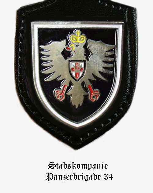 Internal coat of arms Stabskompanie Panzerbrigade 34 (StKp PzBrig 34) of the Bundeswehr (Armed Forces of the Federal Republic of Germany). → Remarks on naming and categorization scheme